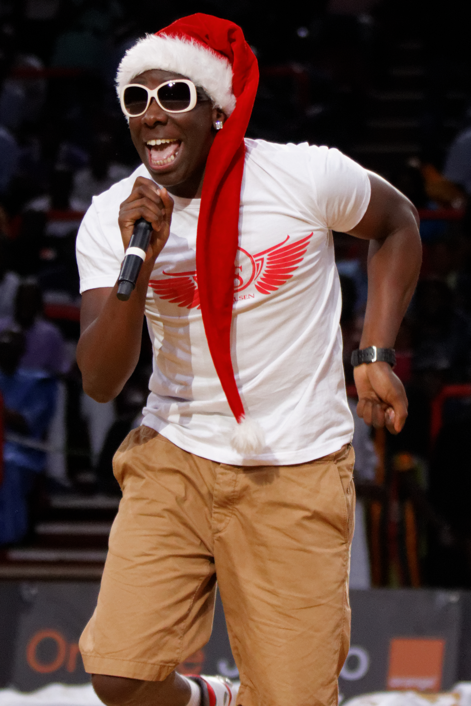 World African Wrestling world tour, Paris Bercy. Moussier Tombola.